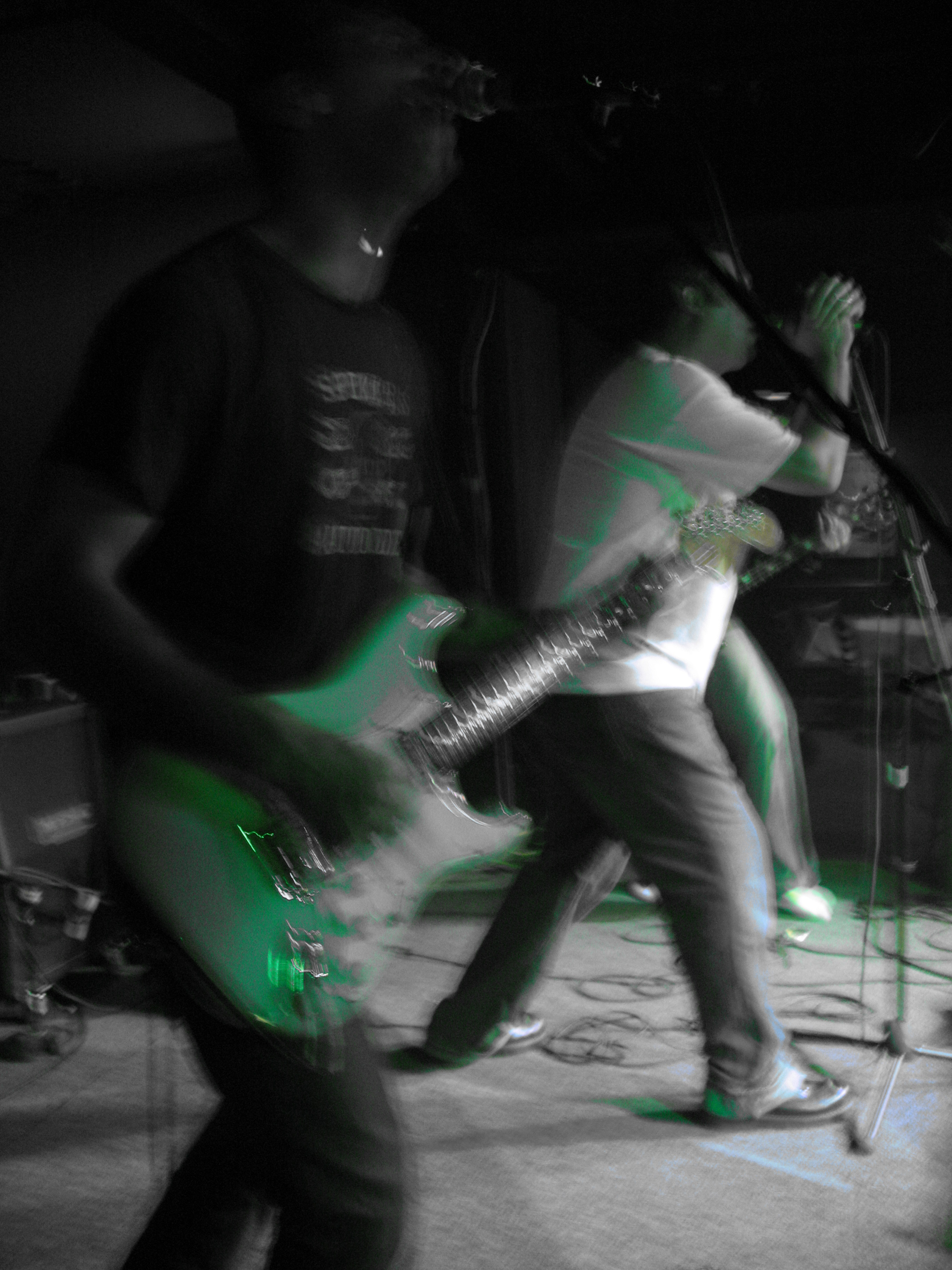 Picture taken at the Whiskey 1803 in Annapolis, Maryland on November 3, 2006.